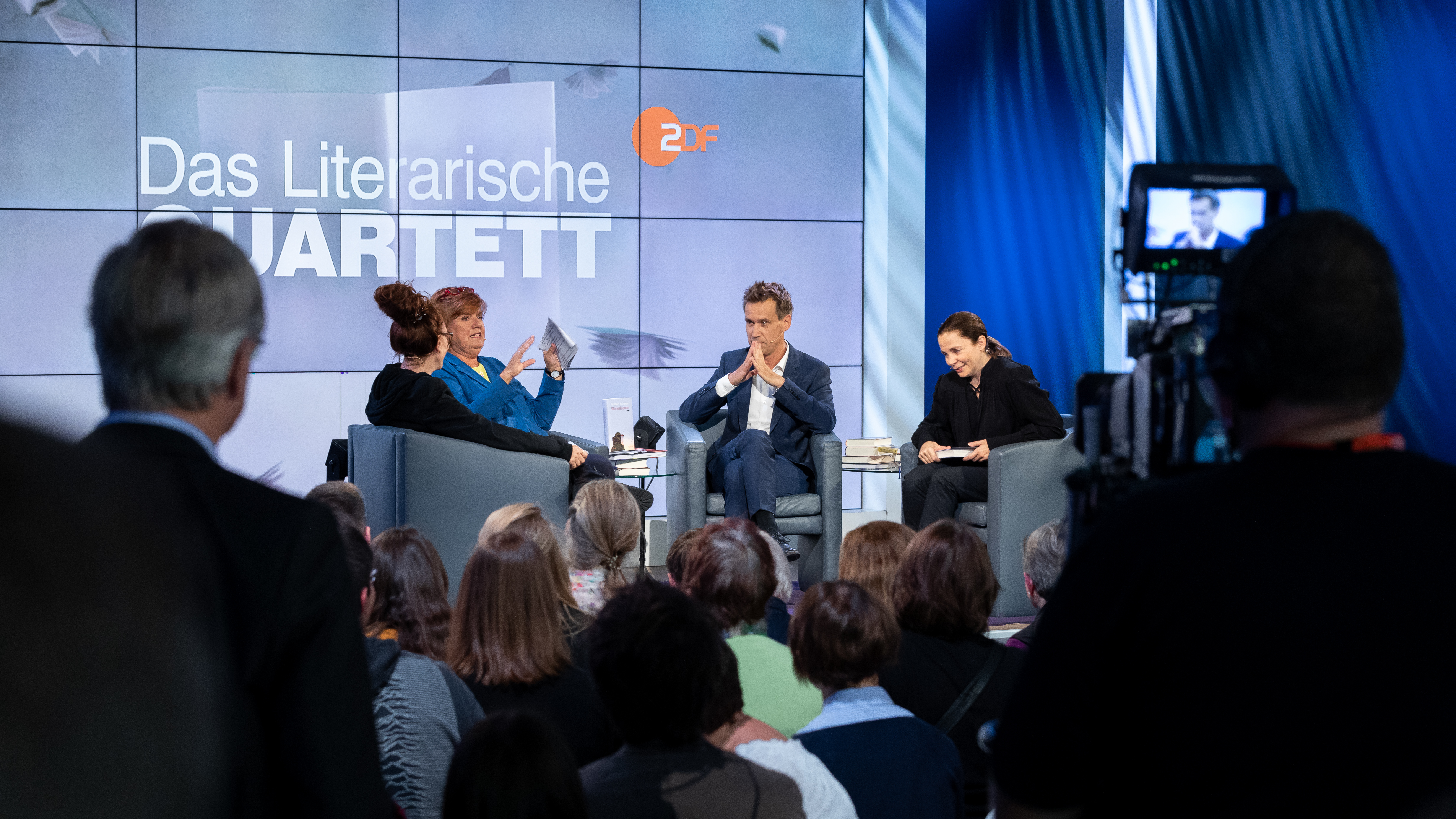 Sibylle Berg, Christine Westermann, Volker Weidermann und Thea Dorn; Das Literarische Quartett at the Frankfurt Book Fair 2019